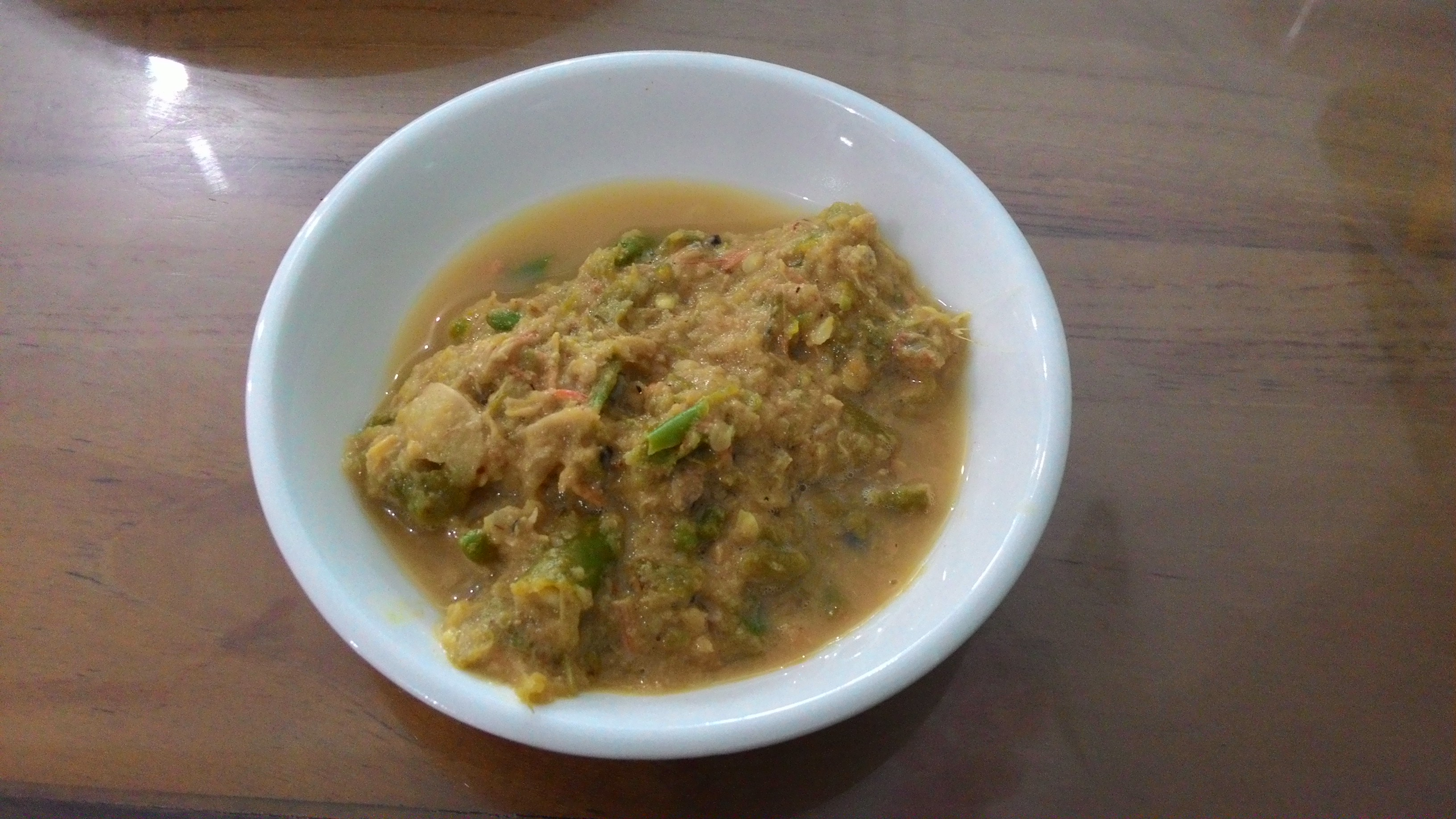 Acehnese cuisine, sambai asam udeueng Acèh: Sambai asam udeuëng